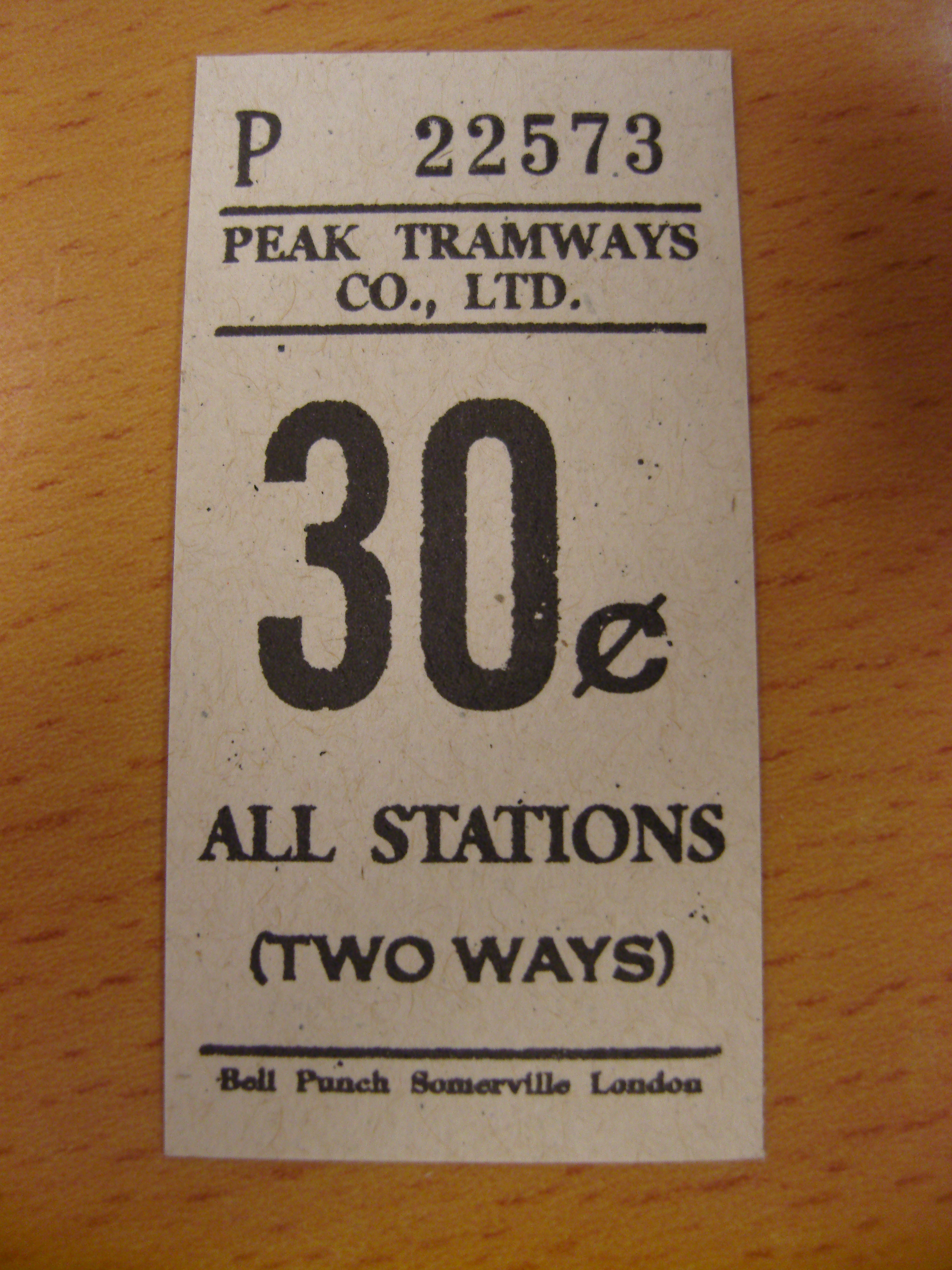 120th anniversary of Peak Tram in Hong Kong.